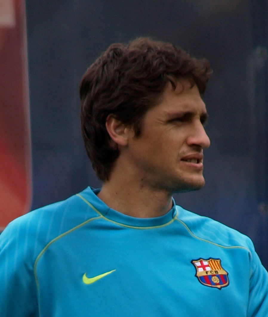 Edmílson, full name José Edmílson Gomes de Moraes, (born July 10, 1976 in Taquaritinga, Brazil) is a Brazilian football player of Italian descent. He has played as centre-back/defensive midfielder for São Paulo FC, Olympique Lyonnais and currently FC Barcelona, with a contract to end in June 2007.